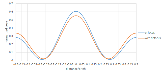 Subresolution assist features suffer from printability due to defocus at the larger pitch.[1][2][3][4][5][6]